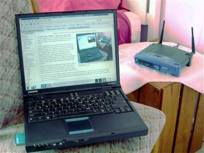 A laptop computer, and home wireless router (background), which connects it to the Internet. The laptop has a WiFi wireless modem which transmits data to and receives data from the router, which passes the data on to the Internet through a cable connection provided by an Internet service provider (ISP). The Wifi modem has an automated radio transmitter which transmits packets of digital data by microwaves to a receiver in the router, and the router has a transmitter which transmits data packets back to the laptop. The router may also connect the laptop to other devices on the home network, such as a printer or another computer. The laptop's modem is an add-on card, visible as the turquoise device protruding from the left side.